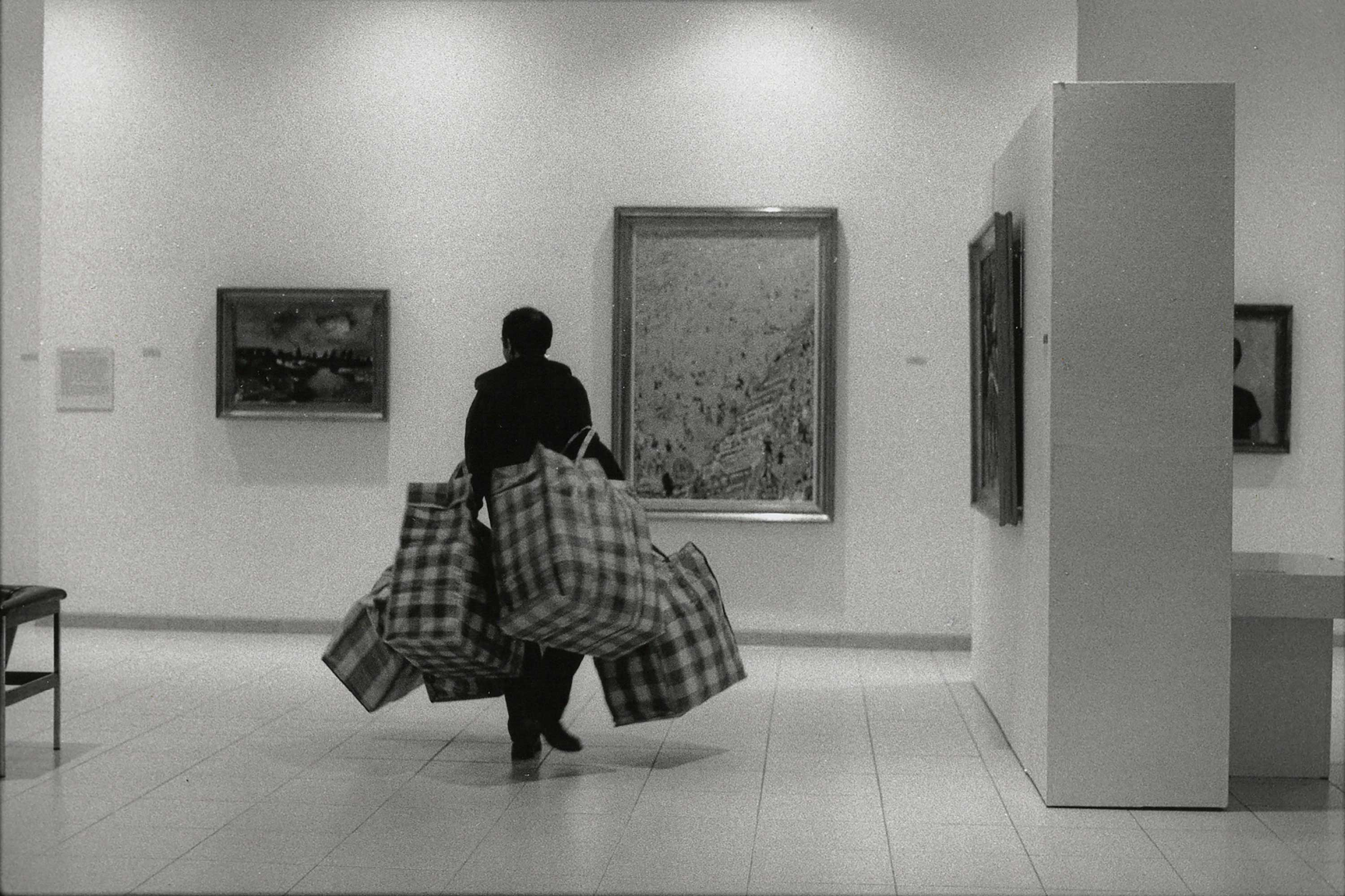 Stephen Wilks looking for the right location to place his work, Green Easter, Museum Dhondt-Dhaenens, Deurle (1997)